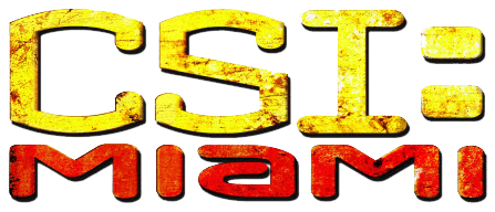 Logo of CSI: Miami